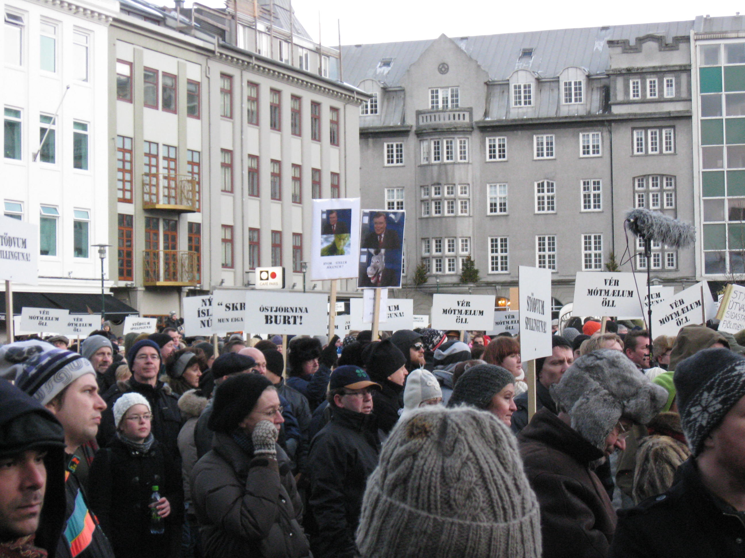 Protests on Austurvöllur because of the Icelandic economic crisis. Many protesters have signs saying: "Vér mótmælum öll!", a reference to the National Assembly of 1851.